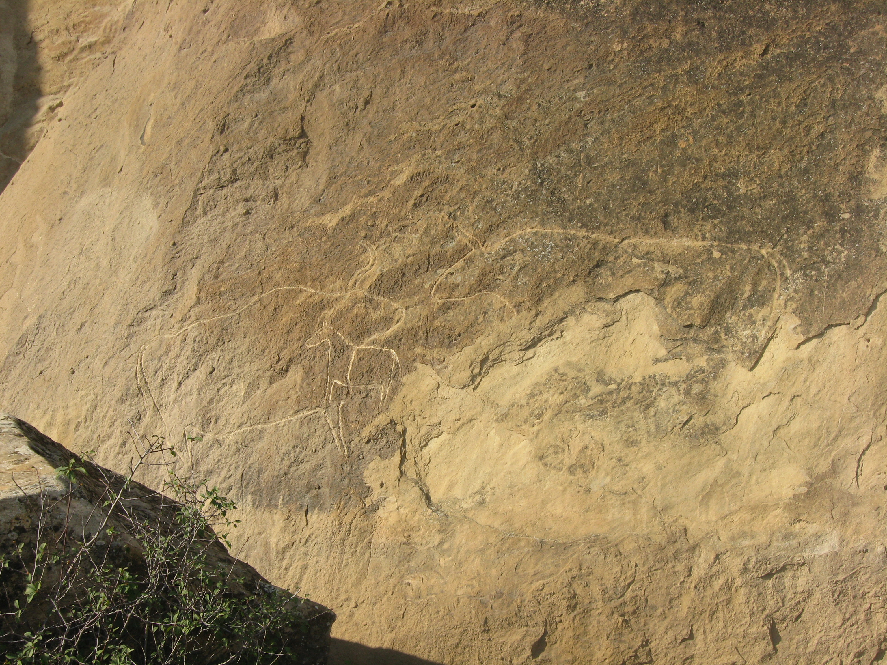 Buffalos painted in mezolit on rock of Gobustan